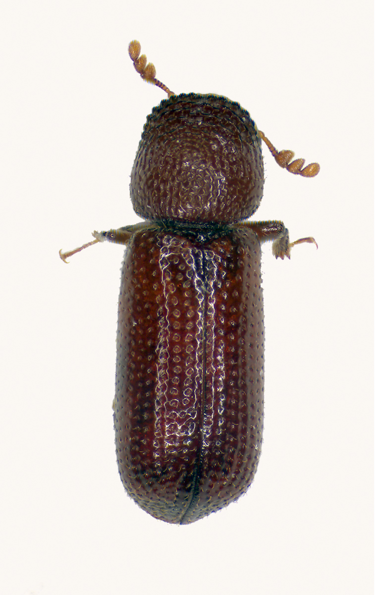 Rhyzopertha dominica (Lesser Grain Borer) is a pest affecting whole cereal grains, especially wheat, barley, rice and sorghum.